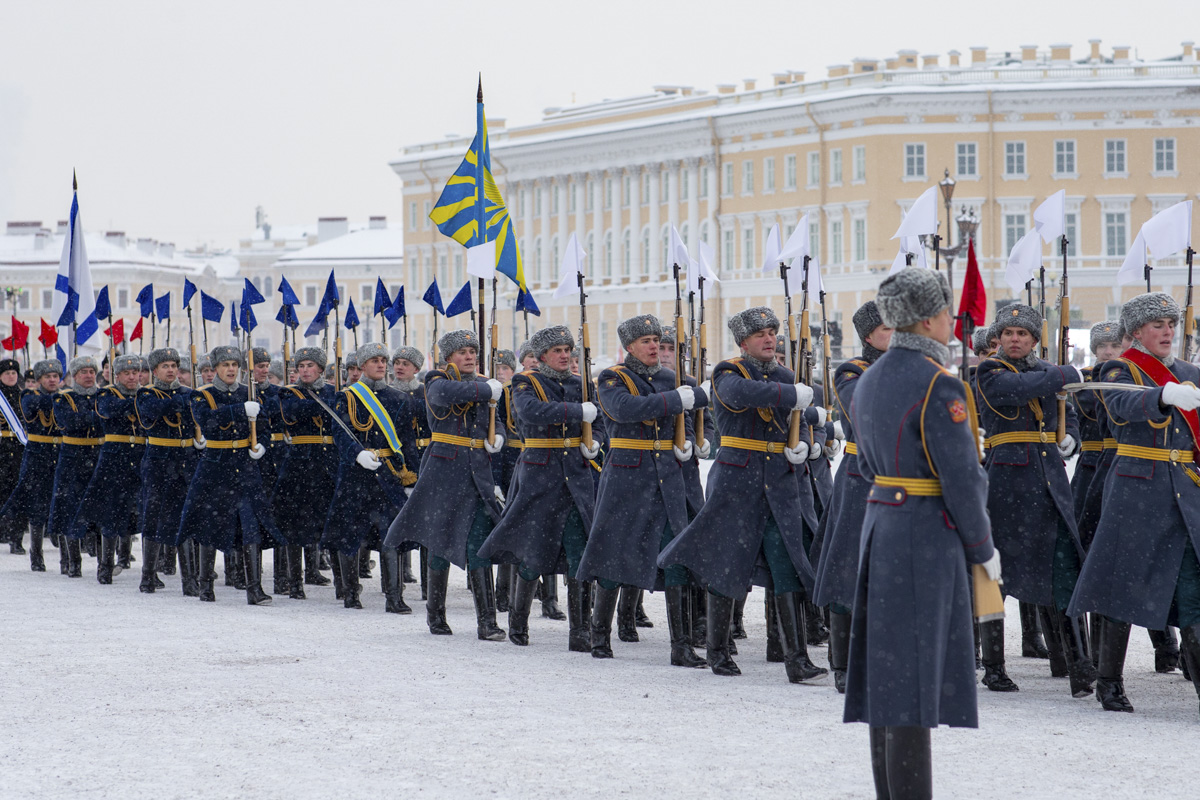 На Дворцовой площади Санкт-Петербурга состоялся военный Парад Памяти в ознаменование 75-й годовщины полного снятия фашистской блокады Ленинграда